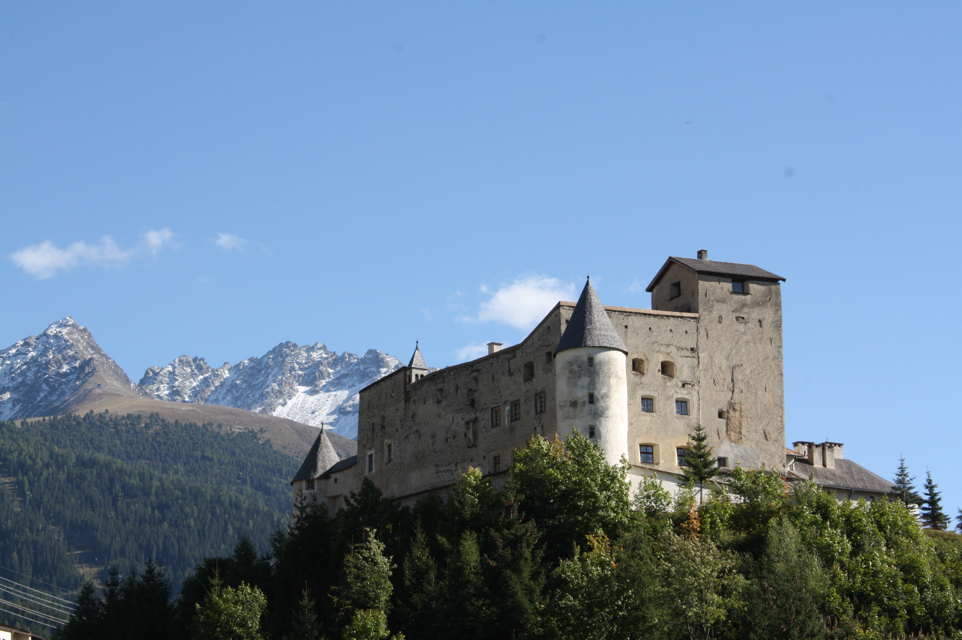 Castle Naudersberg is located on a hill in the municipality of Nauders in Tyrol.